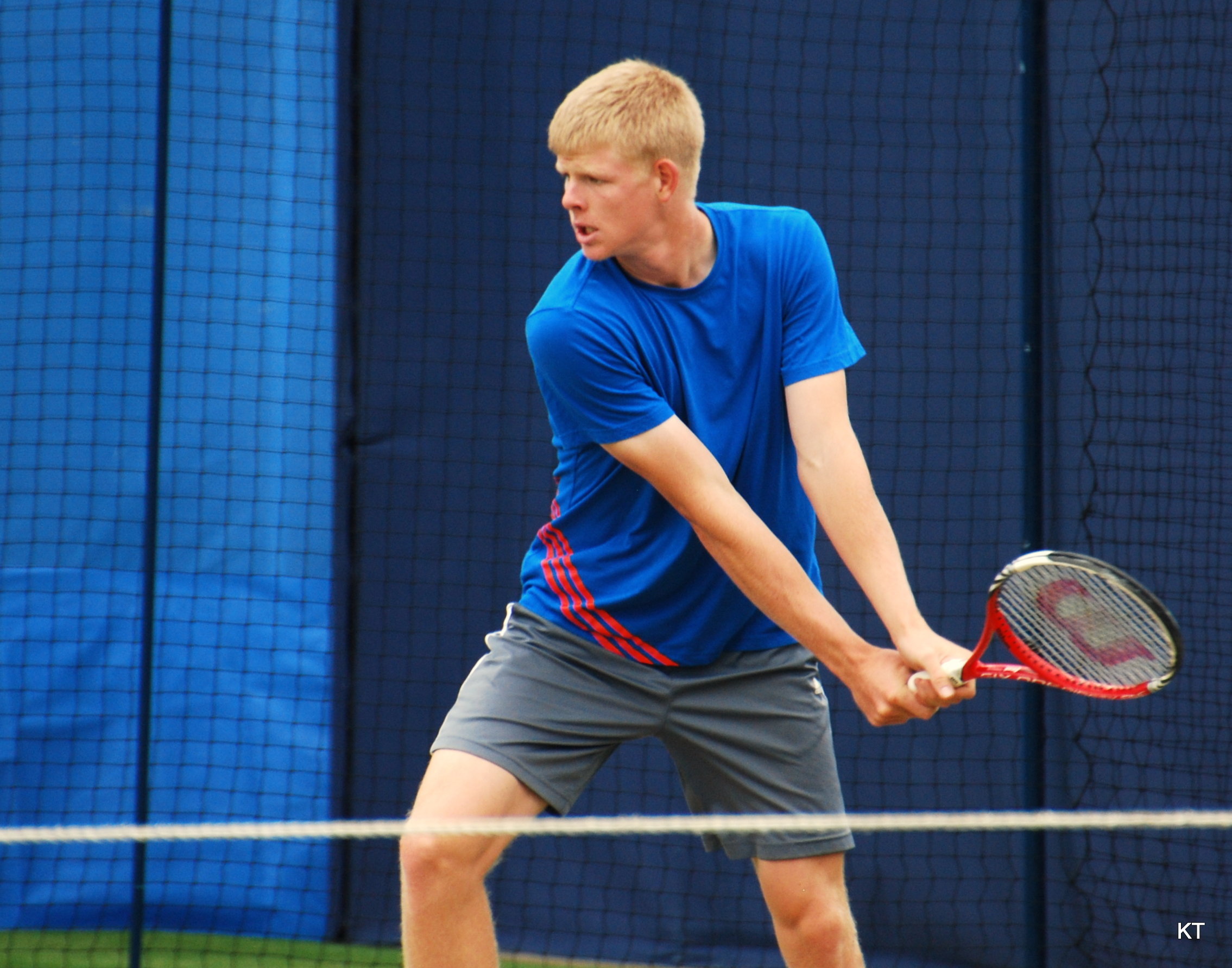 Practicing at Queens Club